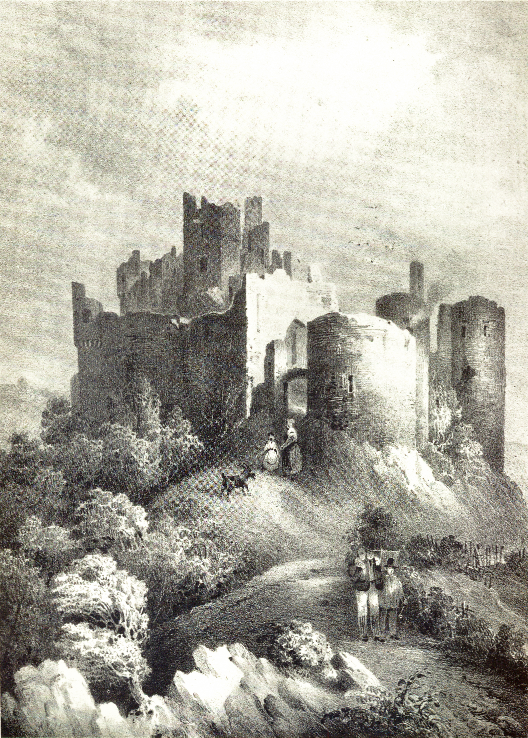 Ruins of the castle of Bourscheid, Luxembourg. Drawing.